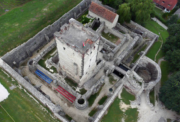 Nagyvázsony, Castle, Hungary, aerial photography